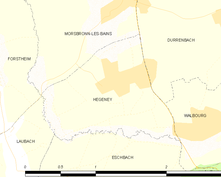 Map of French municipality